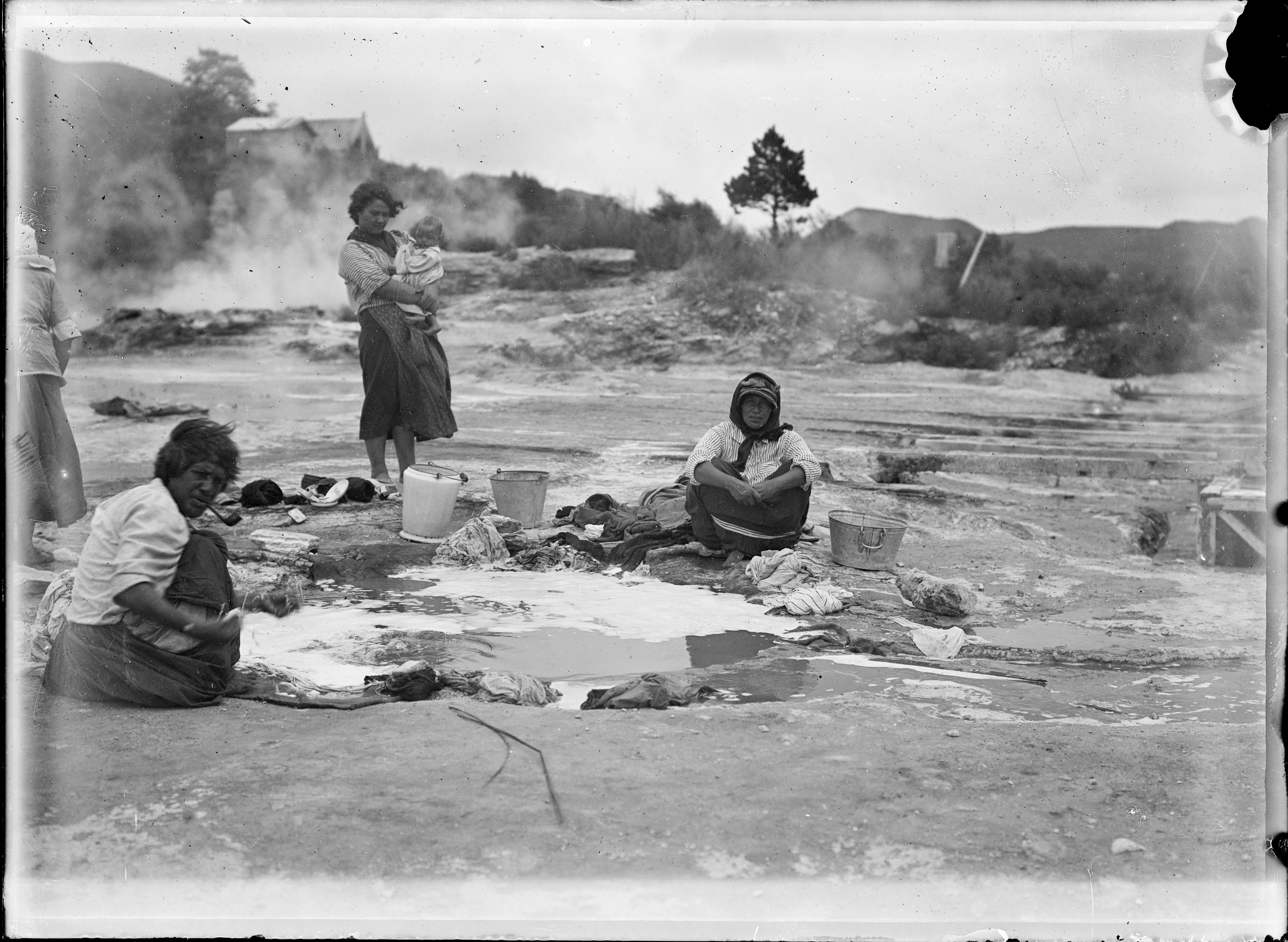 Three unidentified women washing clothes in a hot pool at Whakarewarewa. Photograph taken by Albert Percy Godber in 1916. Dated from other images in the Godber album at PA1-q-102 (Vol 109, p 39).